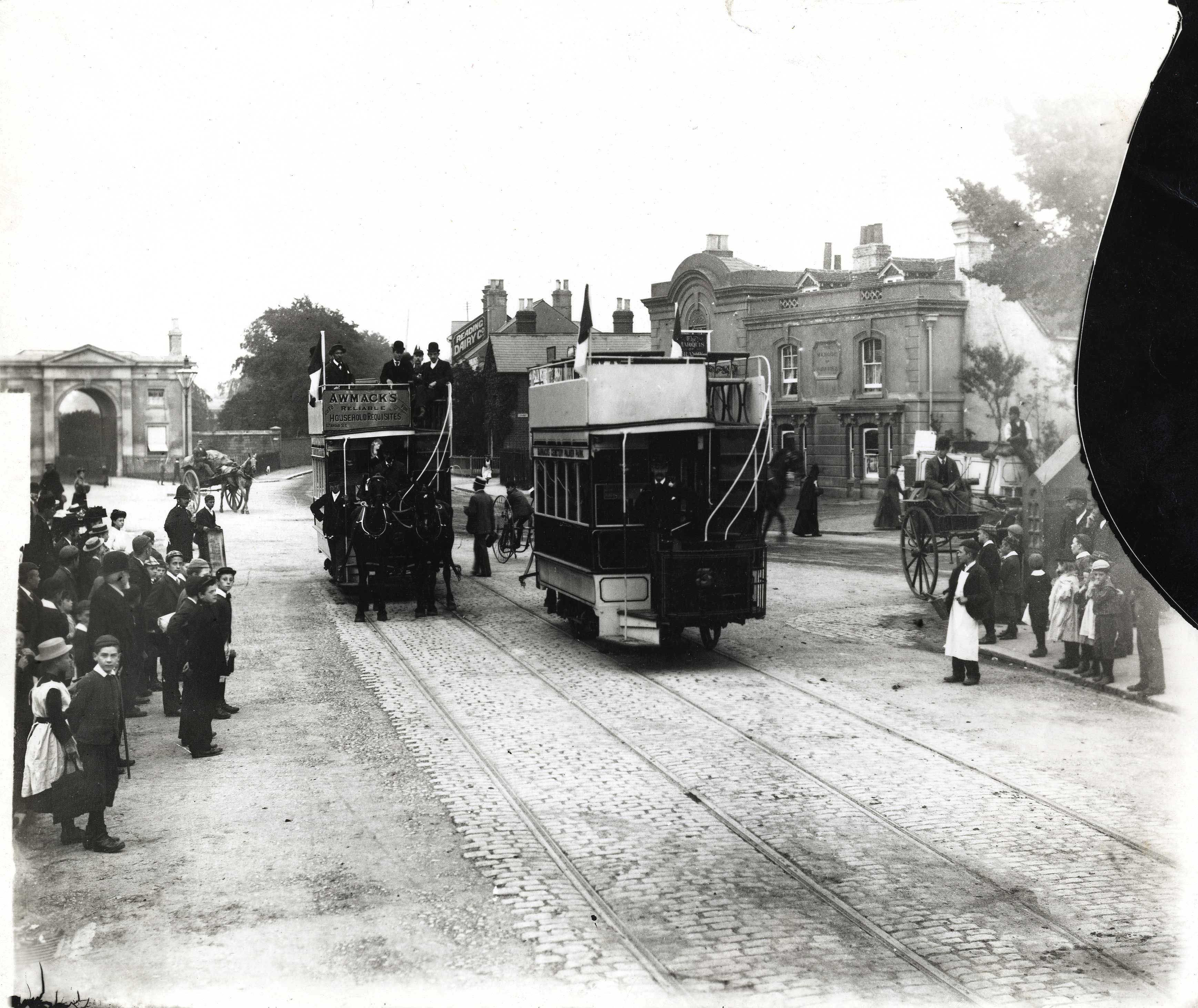 Reading Tramways Company. Horse-trams 2 and 3 at the Cemetery Junction terminus, 15 July 1893. This is the first day of operation for the double-deck cars, and a crowd of onlookers has gathered. Car No. 2 carries advertising for Edwin Awmack's hardware shop at 87 Broad Street. Car No. 3 is waiting for the horses to be changed. Between the cars is a Starley "Royal Salvo" tricycle with two very large wheels. In the background are the cemetery gates, the shop of the Reading Dairy Company at No. 12 Wokingham Road, and the Marquis of Granby inn in London Road. 1890-1899 : photograph by Walton Adams.